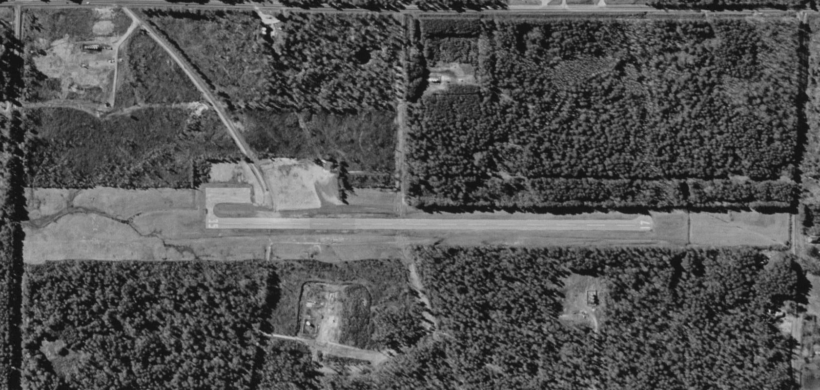 Aerial image of Haynesville Airport in Haynesville, Louisiana, United States.The image has been rotated clockwise 90 degrees (North direction is to the right). N